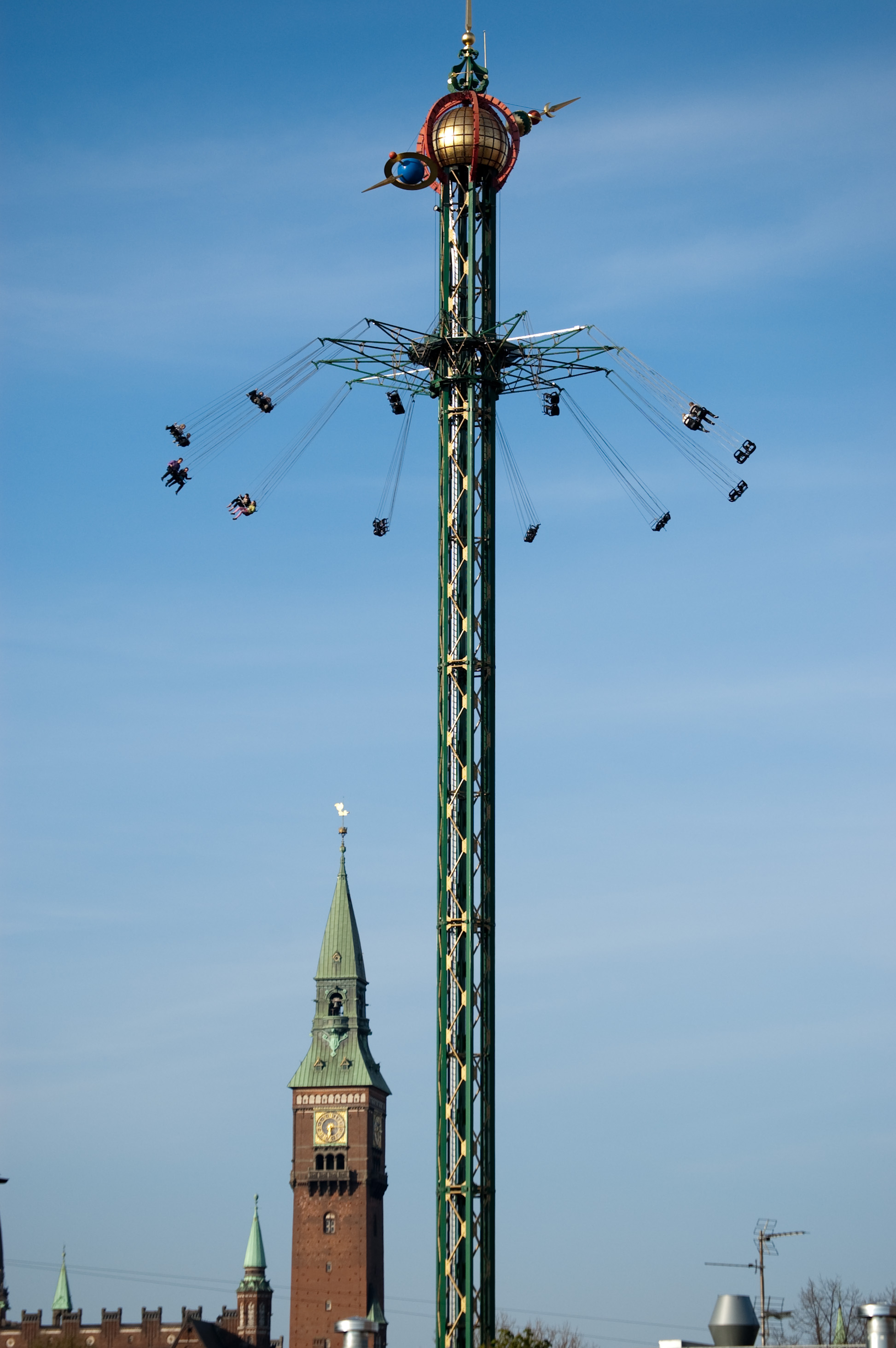 Himmelskibet )"Ship in the Sky"), a ride in Tivoli Gardens in Copenhagen, Denmark, which affords sweaping views of the city centre